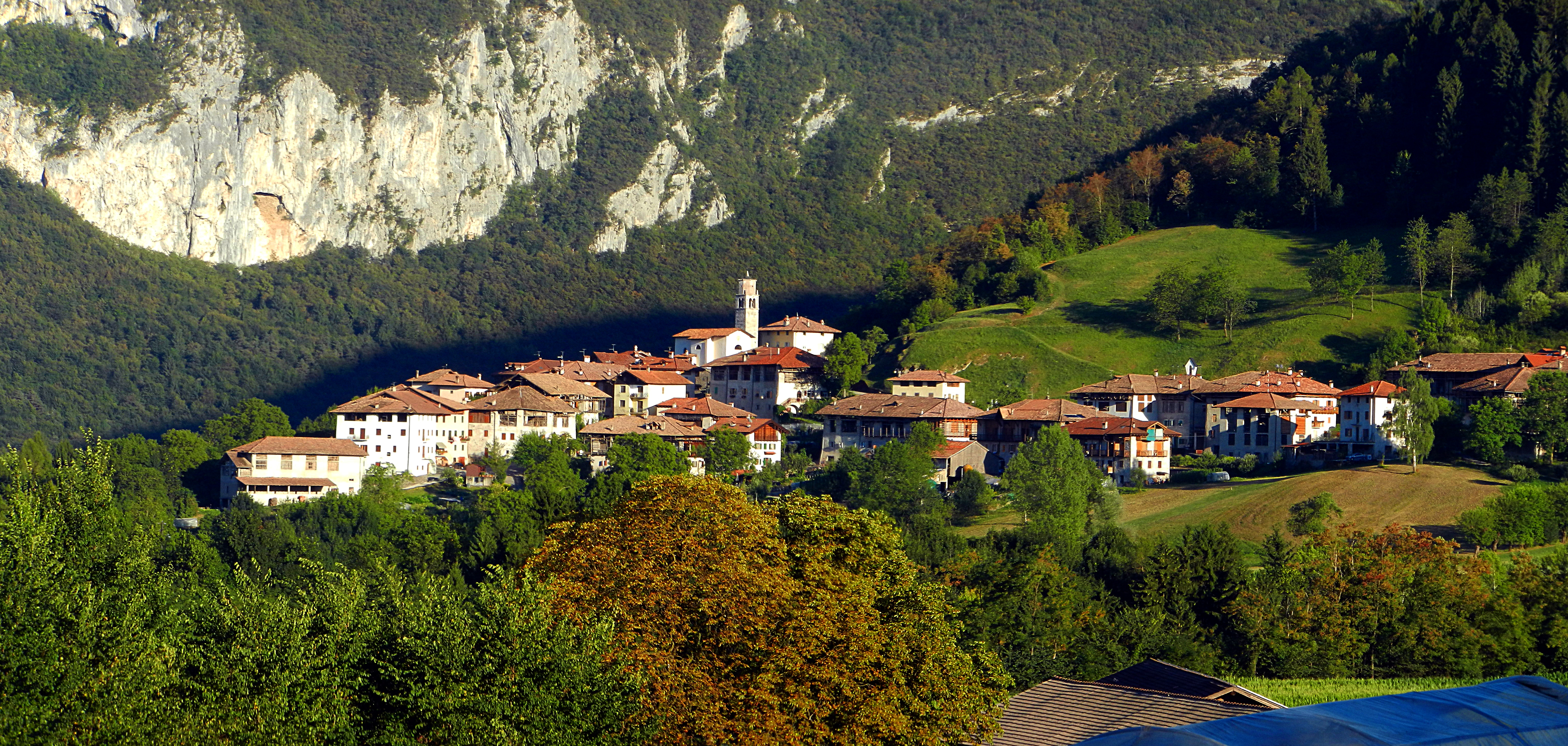 Landscape of Favrio, a frazione of Fiavè.